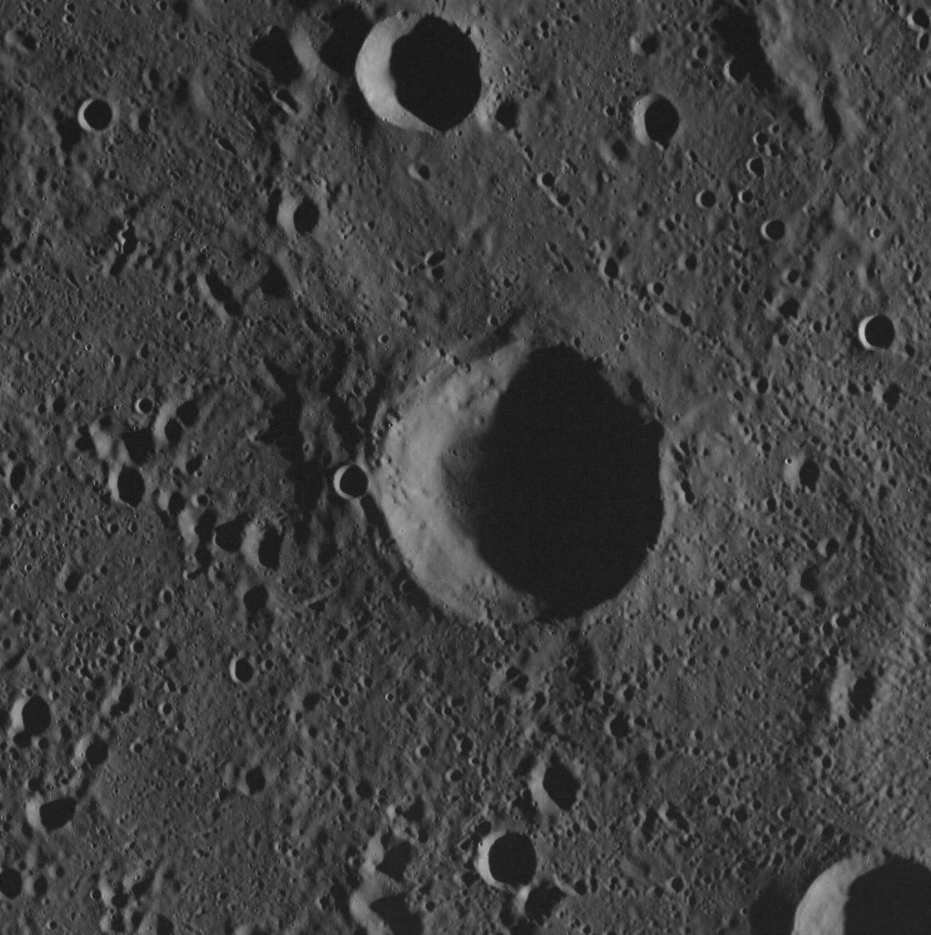 Vonnegut crater on Mercury. Emission Angle: 0.3 Incidence Angle: 82.9 Latitude: 82.9 Longitude: 110.4 Phase Angle: 83